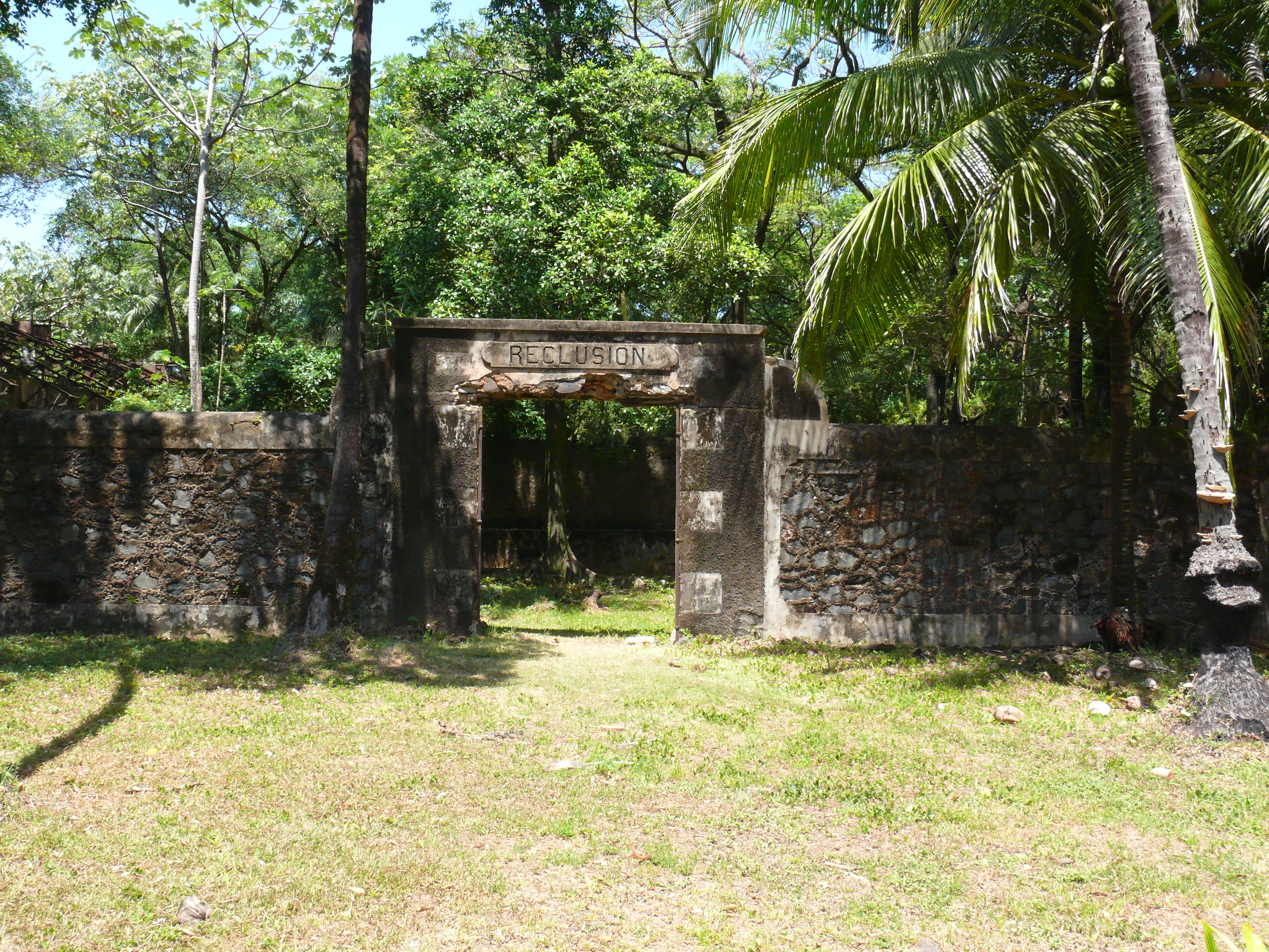 Entrance to the cellblock building. Saint Joseph's Island, French Guiana.